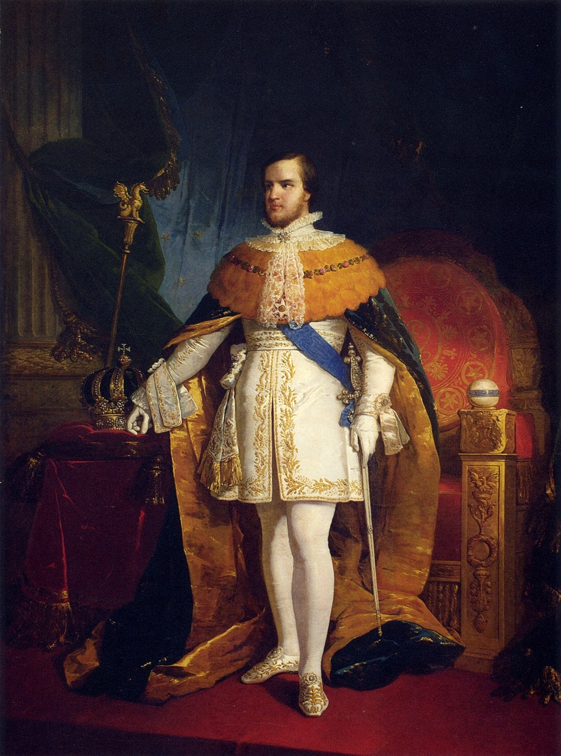 Dom Pedro II, Emperor of Brazil, at age 21.